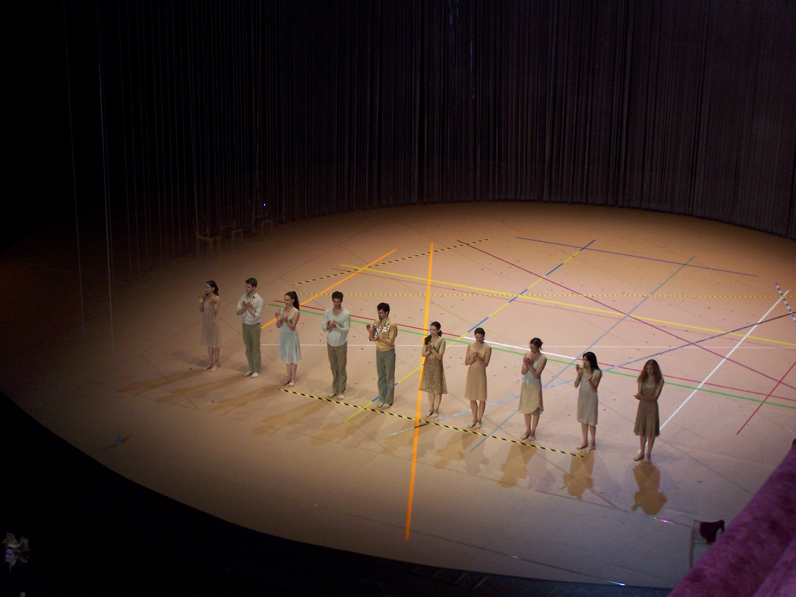 Dancers of the Ballet de l'Opéra de Paris during the applause at the end of the ballet Rain by Anne Teresa De Keersmaeker